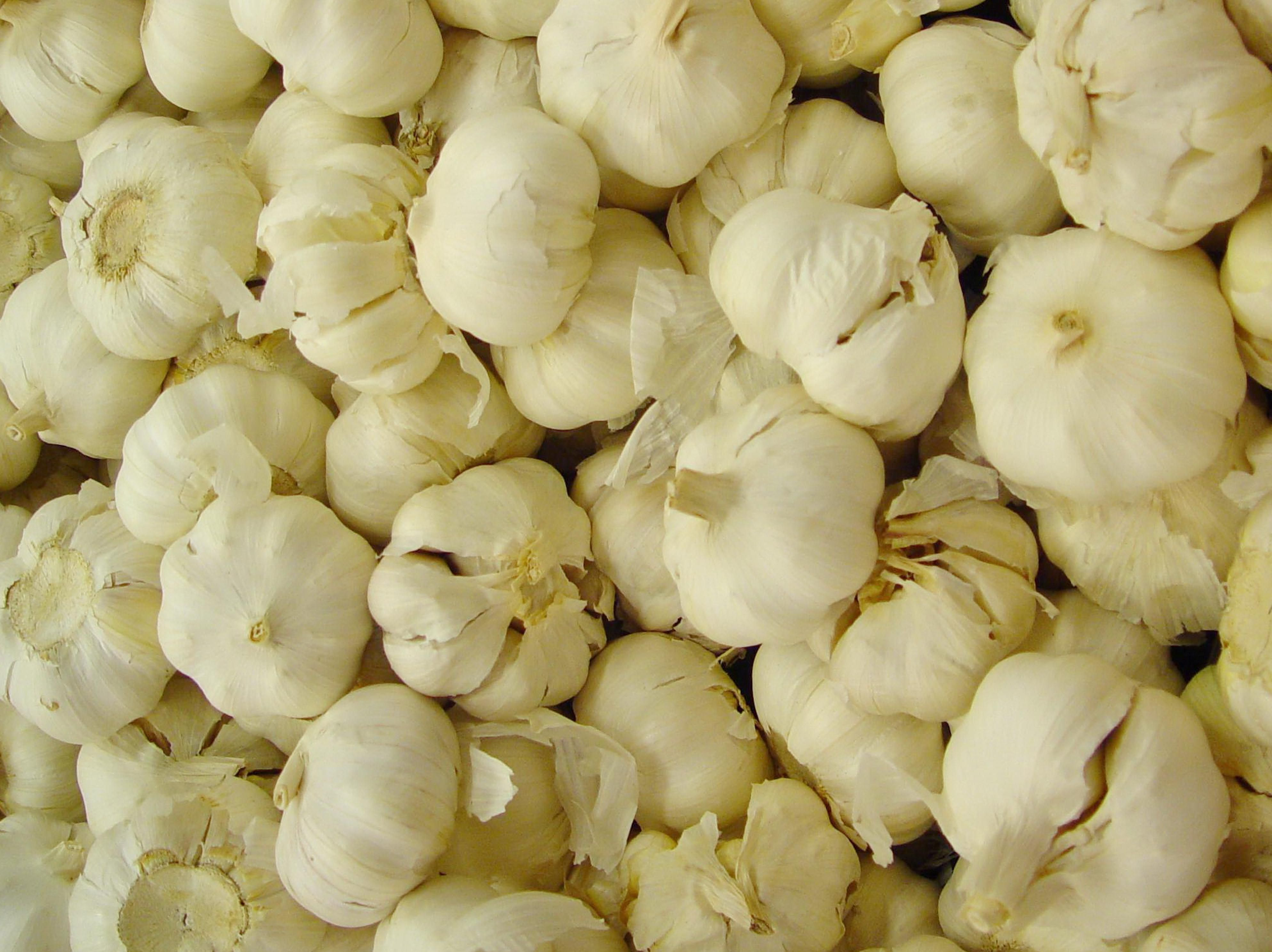 Image title: Garlic cloves Image from Public domain images website